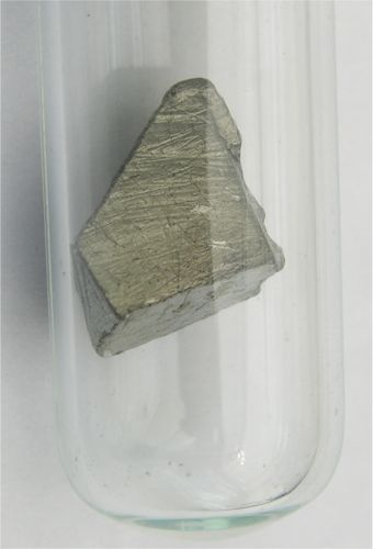 Lanthanum in a glass tube